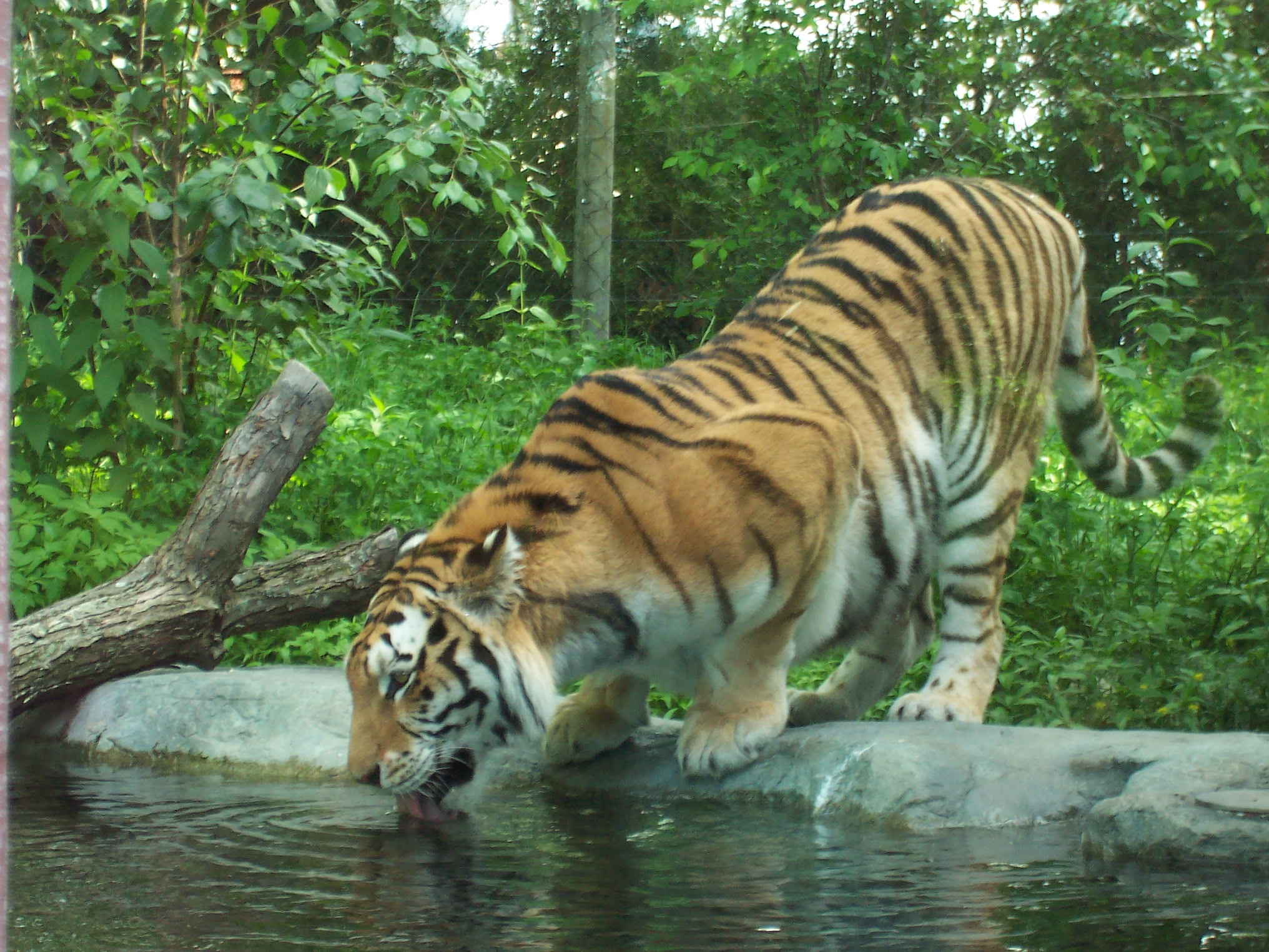 Zoo de Granby (Québec, Canada): "Dans l'oeil du Tigre"; Granby Zoo (Quebec, Canada): "In the eye of the tiger"